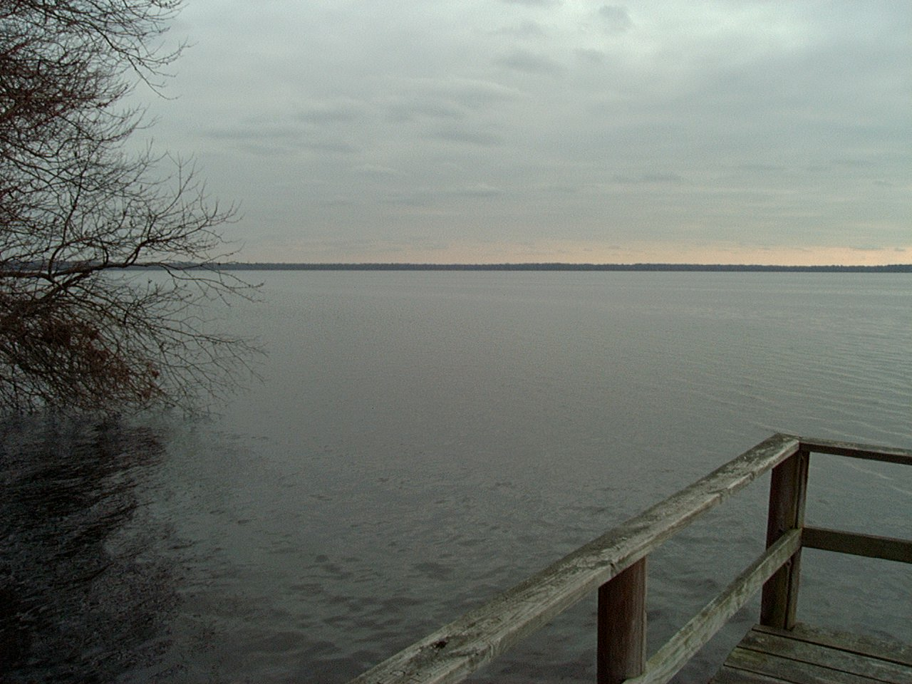 taken by me and my brother back ~2003 no copyright(s) free to distribute to anyone you please =) source: Ic3yme 02:32, 23 April 2006 (UTC)